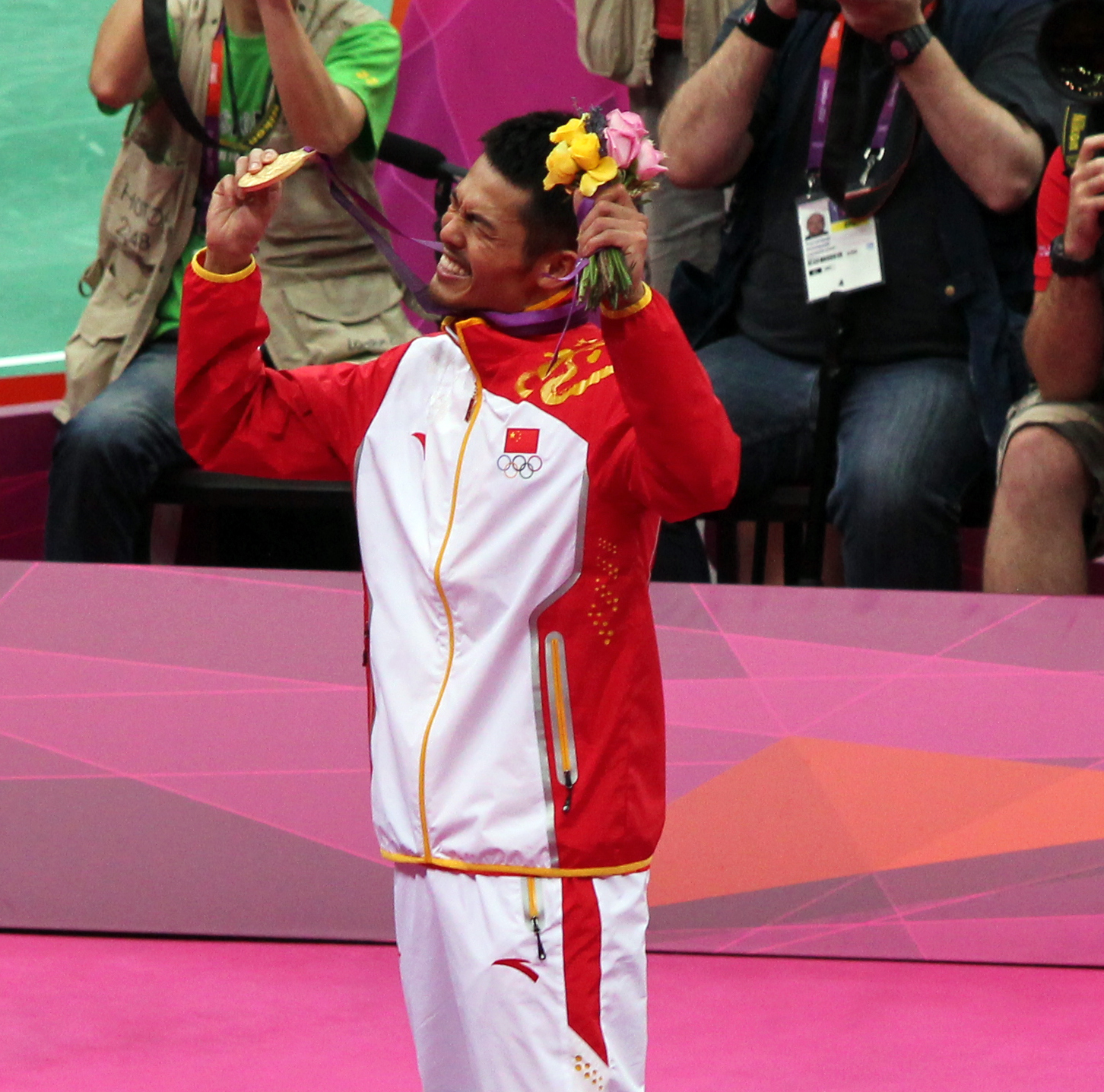 Mens badminton singles final between Lin Dan (China) and Lee Chong Wei (Malaysia) at the Wembley Arena, London 2012 Olympics